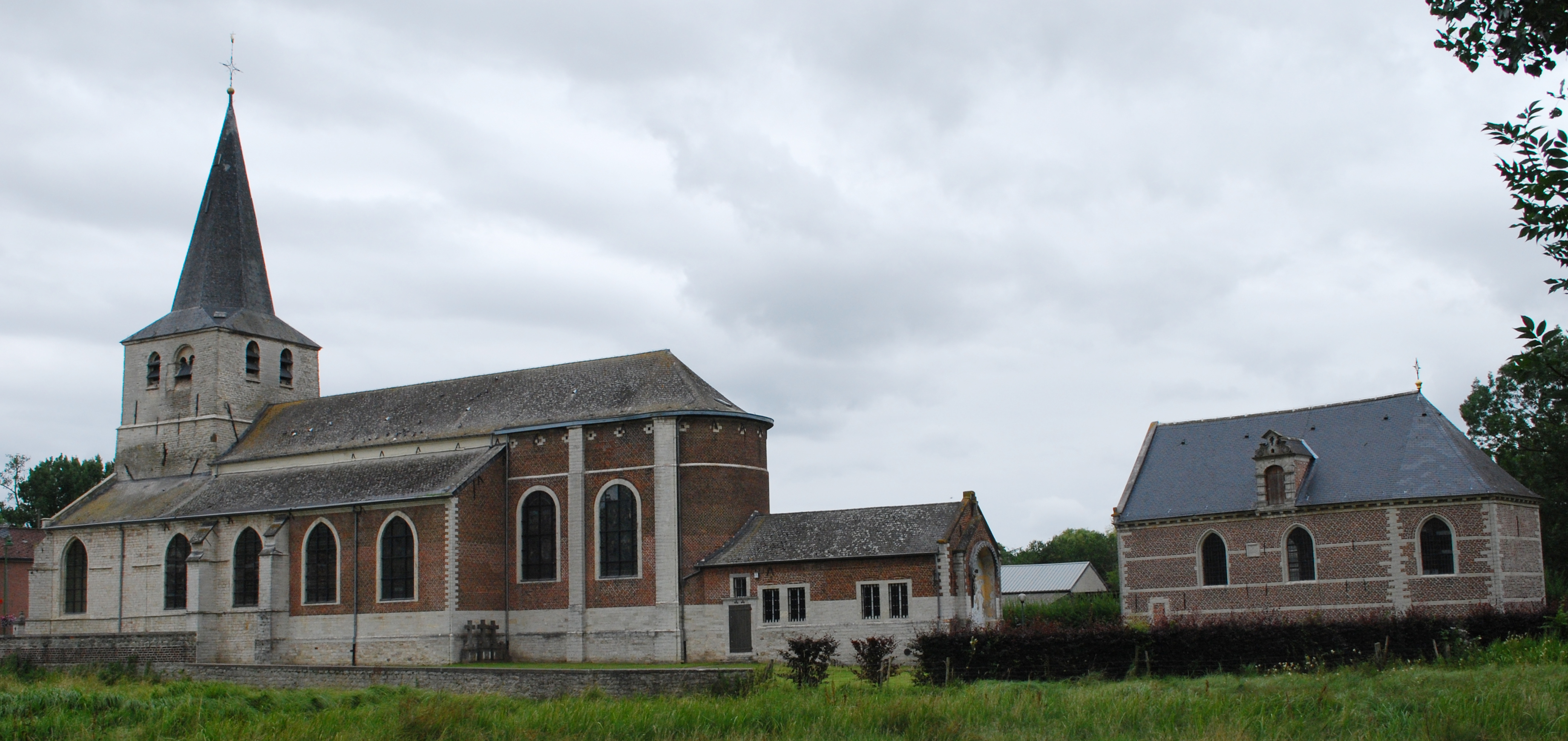 Chapel of Saint Ermelindis at Meldert in the commune of Hoegaarden, Belgium. Photograph by Lieven Smits using a Nikon D60 camera through an AF-S Nikkor 18-55mm lens. Contrast enhanced and frame clipped in Adobe Photoshop 4.0.